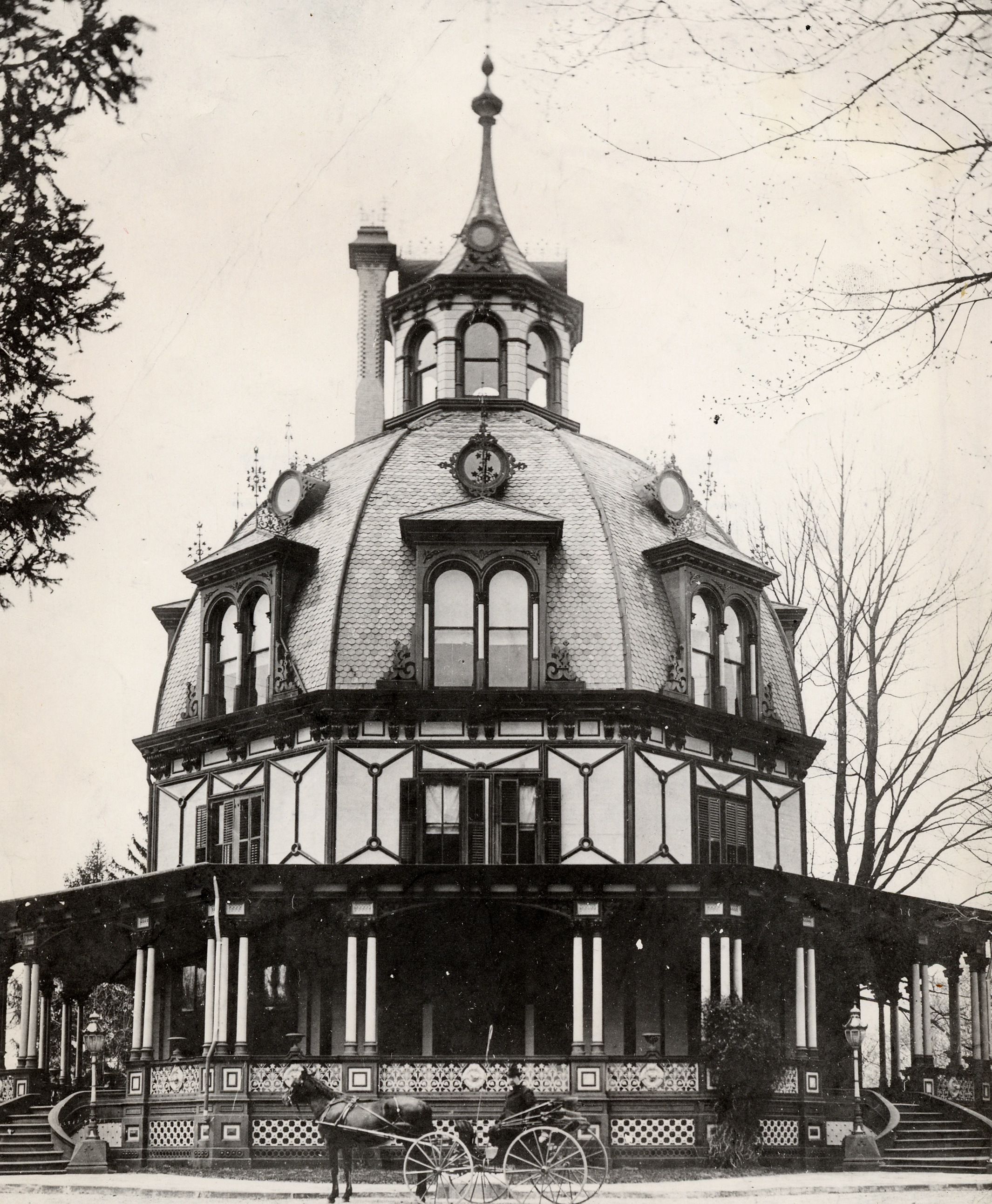 The Armour-Stiner Octagon House, 1882